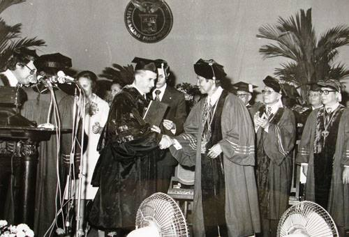 Ceausescu as "Doctor of Laws", Honoris Causa from the University of the Philippines